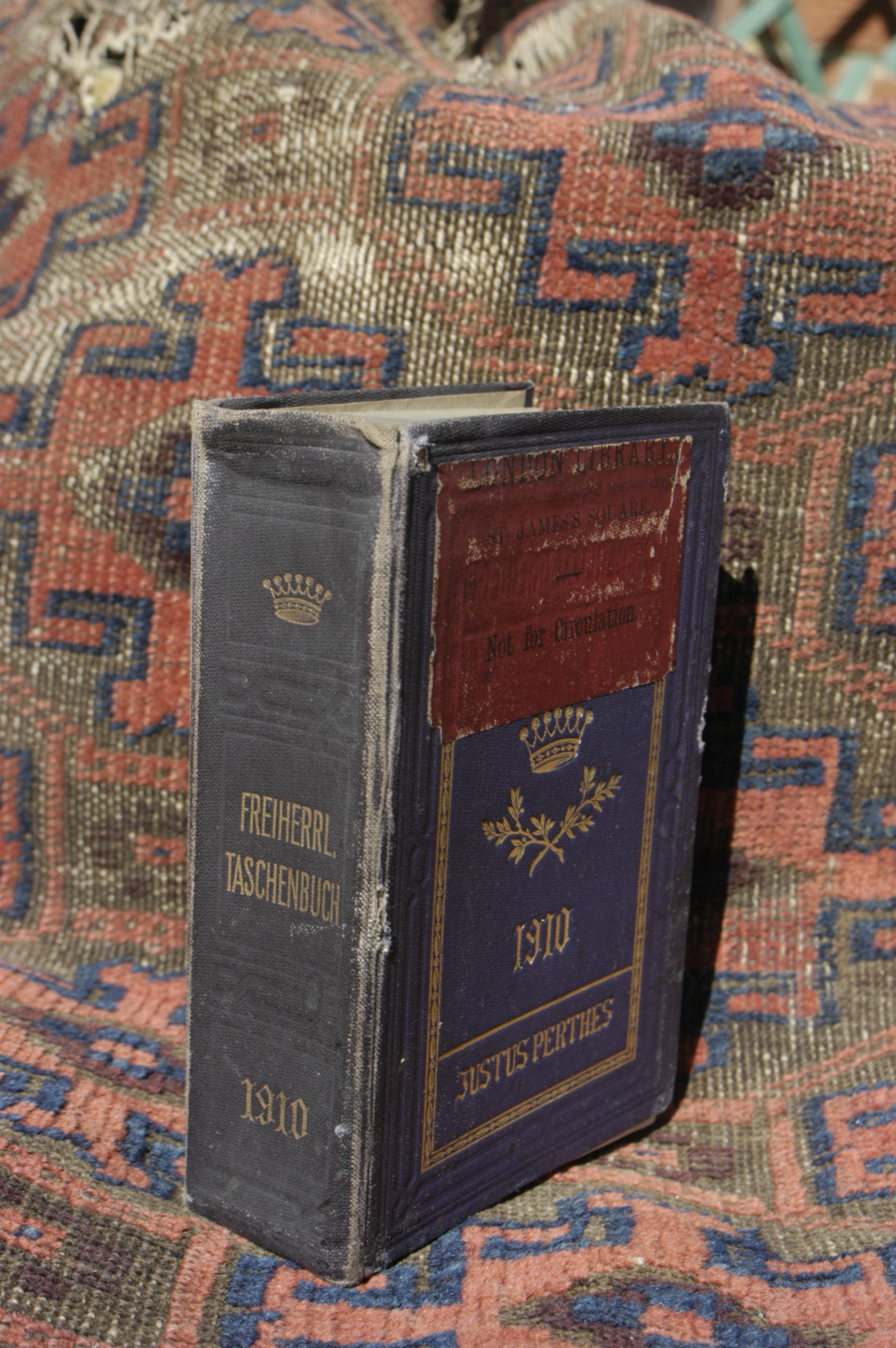 Photo taken by me (R. de Salis, Rodolph (talk)) of a London Library book, Gothaisches Genealogisches Taschenbuch der Freiherrlichen Häuser, 1910, Justus Perthes, Gotha. Other information 2014 photo (by me) of a book published in 1910.